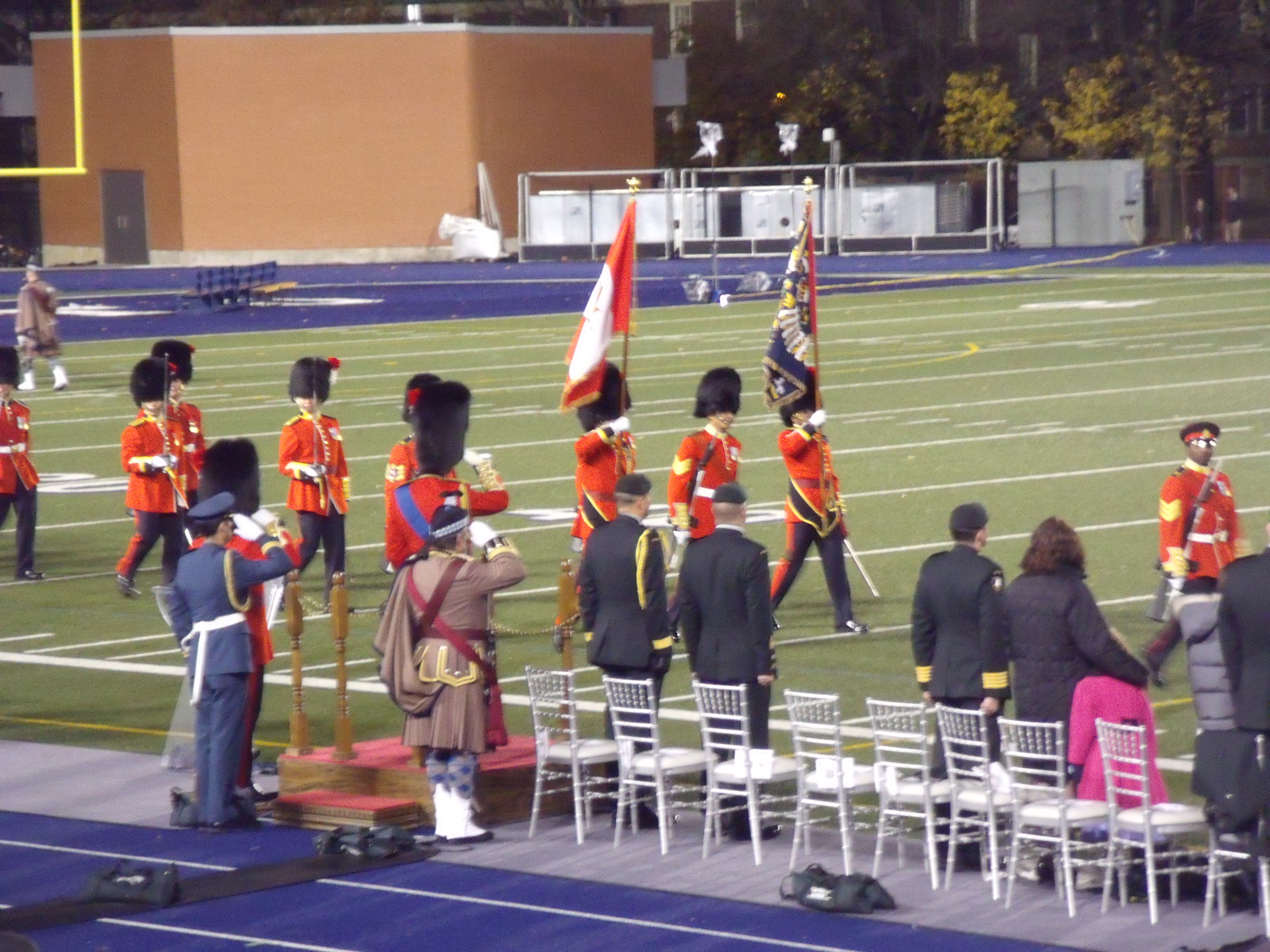 The Royal Regiment of Canada marches past the Prince of Wales